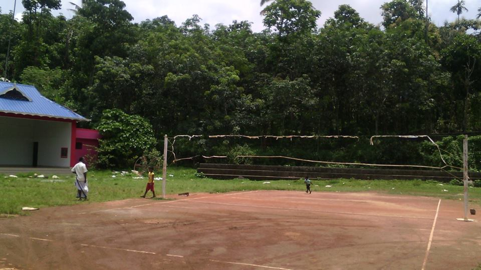 The Grama Panchayath Stadium